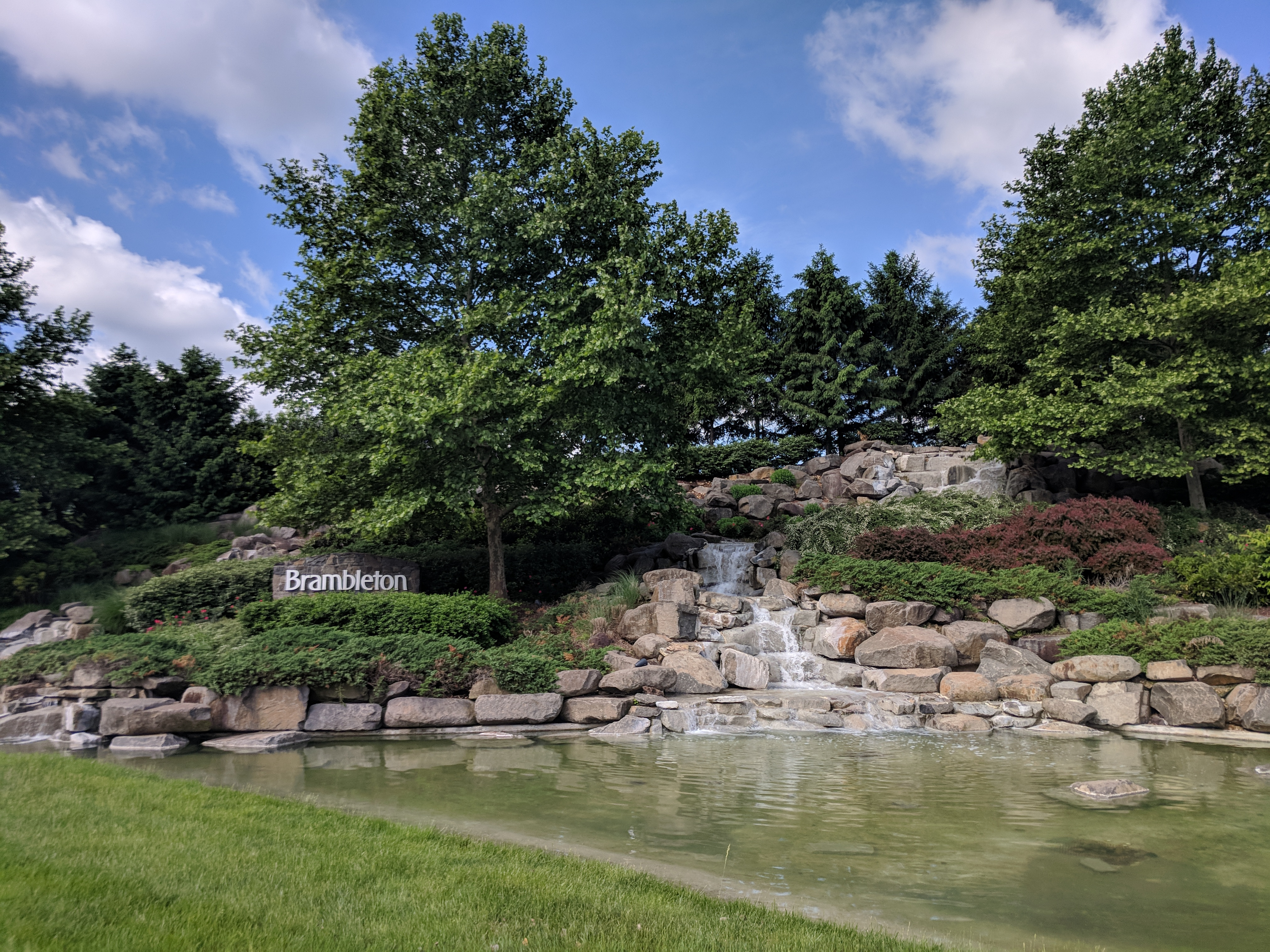 Main Entrance Landscaping in Brambleton, Virginia